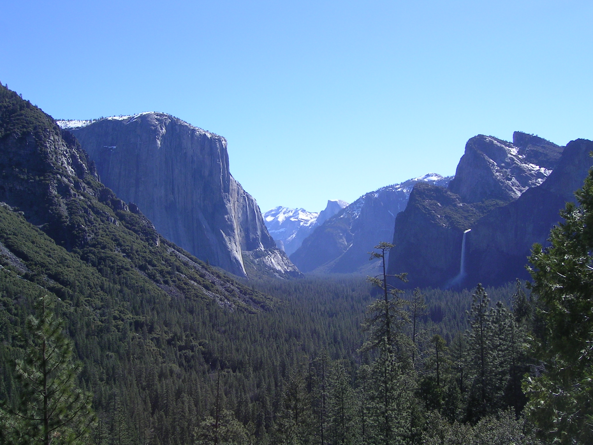 Yosemite National Park, California , USA : Yosemite Valley and Bridalveil Falls (on the right)